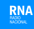 Radio Nacional Argentina